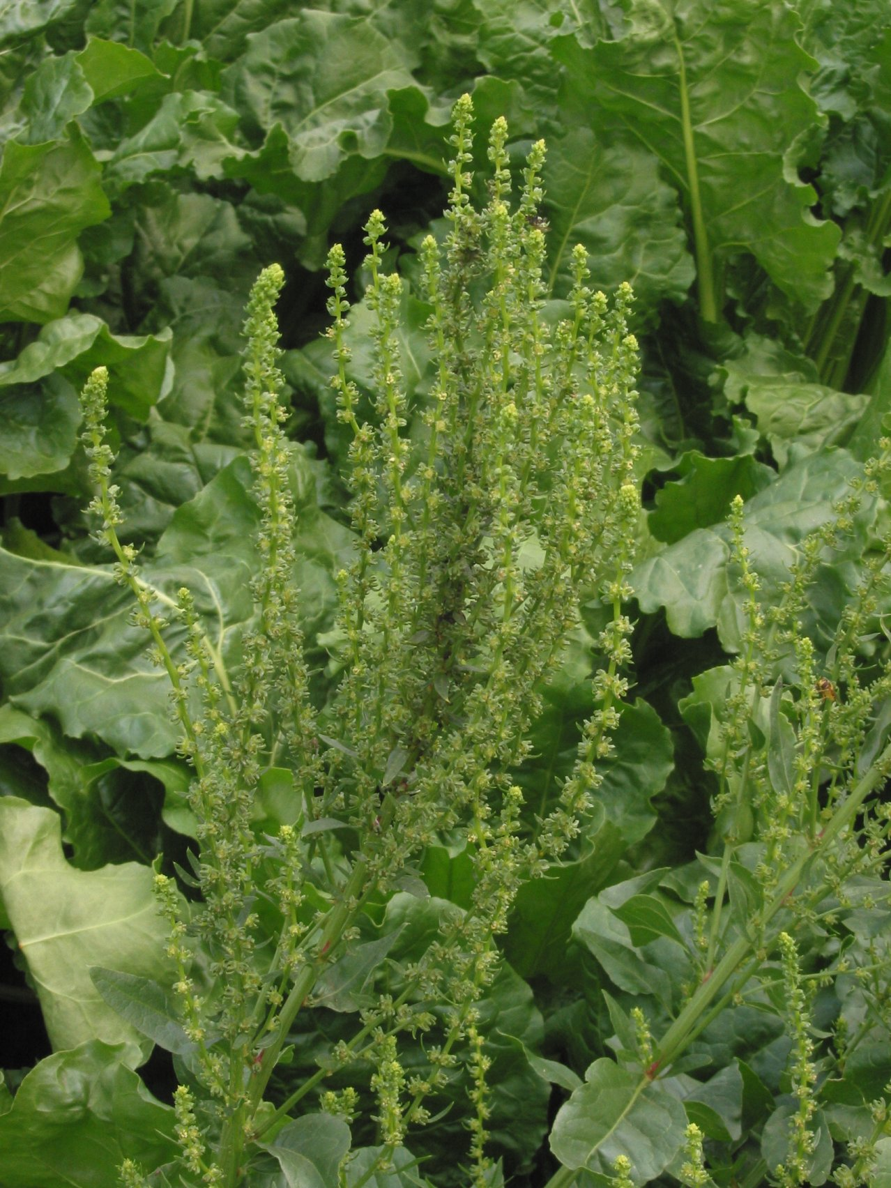 Beta vulgaris inflorescence